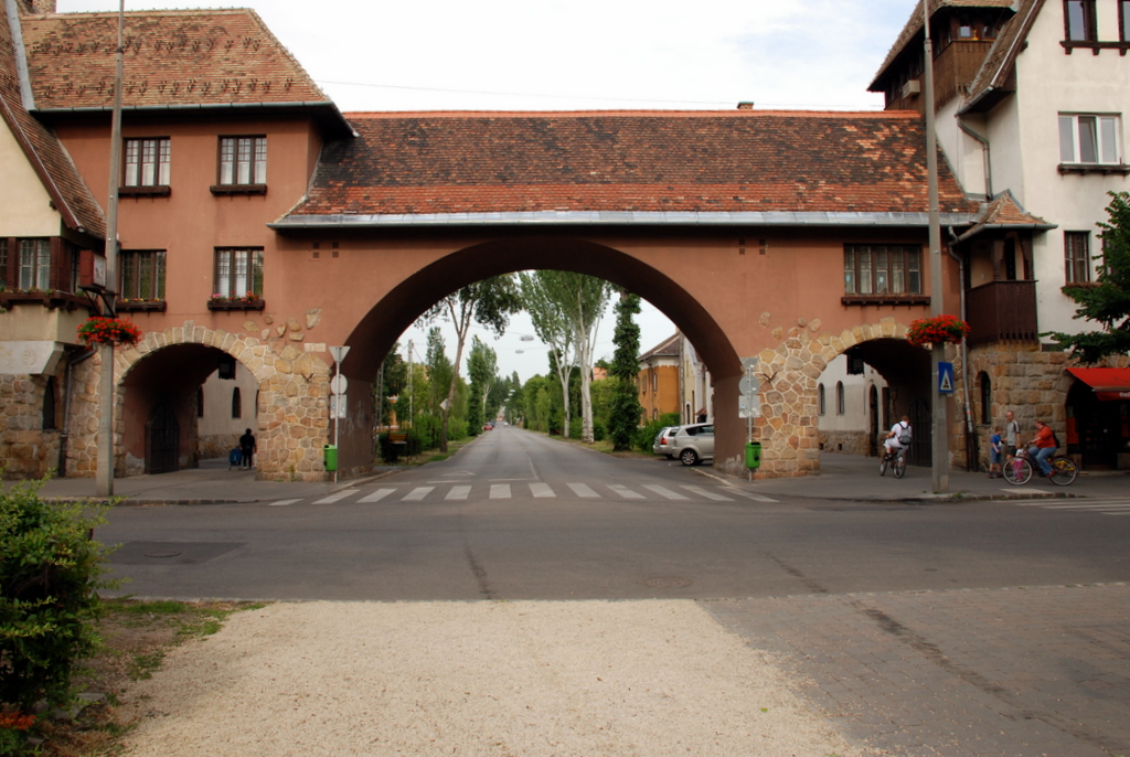 Eastern gate or Kós gate, on Kós Károly square